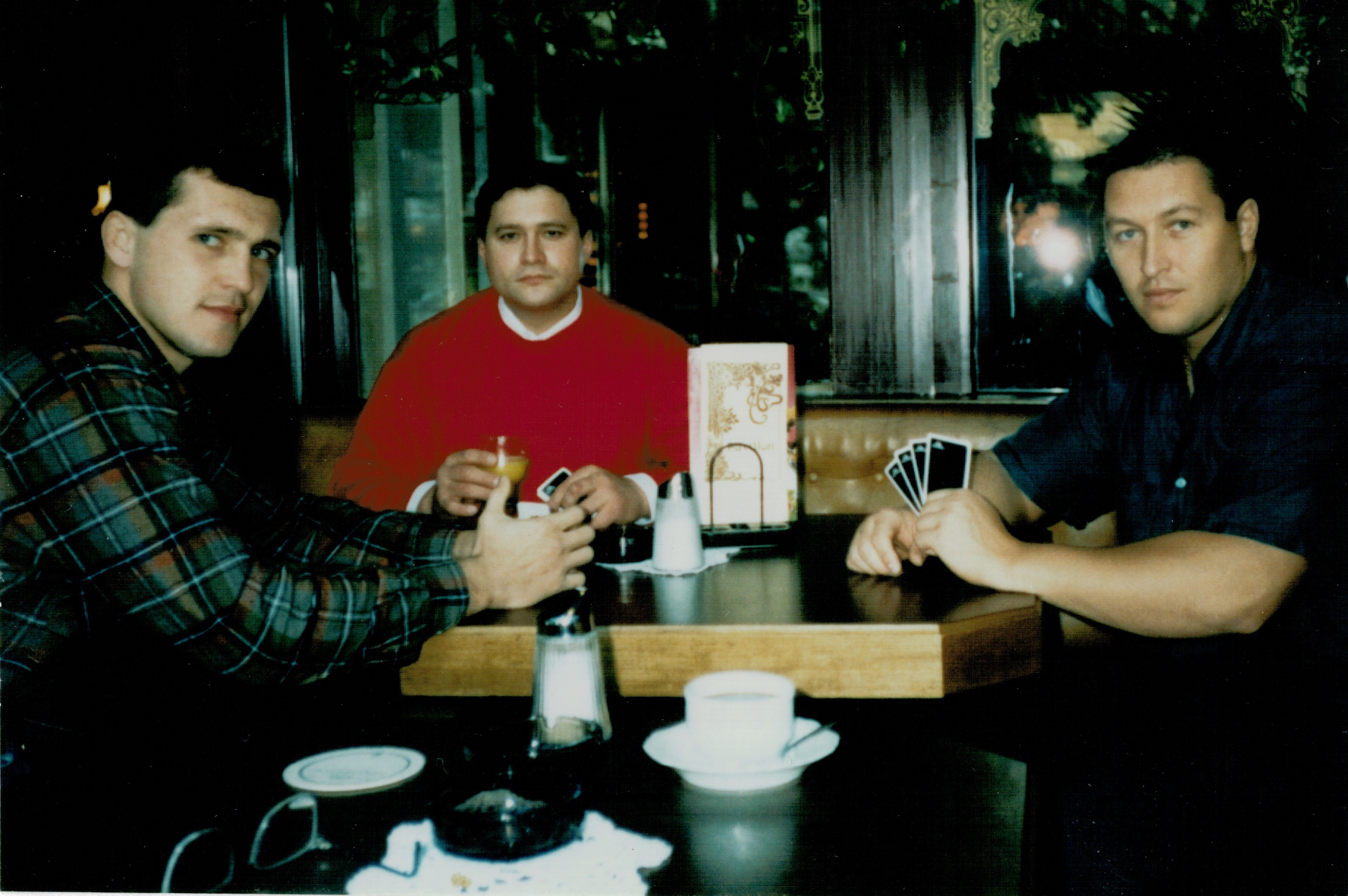 Ляхов, Тучин, Рура